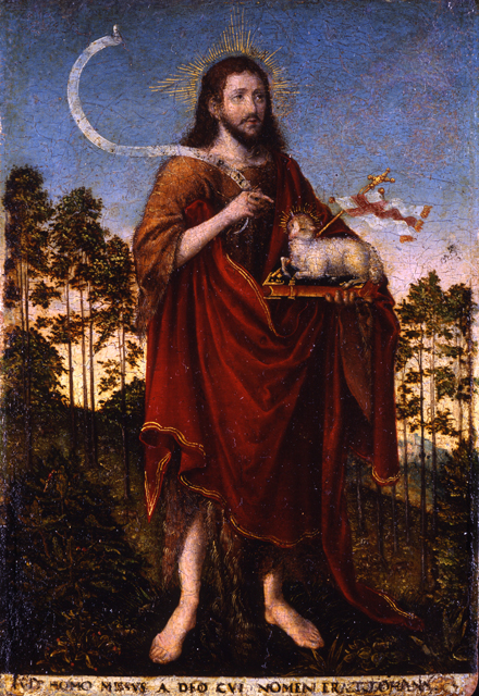 Painting of John the Baptist pointing to the Lamb of God. The inscription at the bottom reads: "[Fu]it homo missus a Deo cui nomen erat Johannes" (a man, whose name was Johannes, was sent by God)